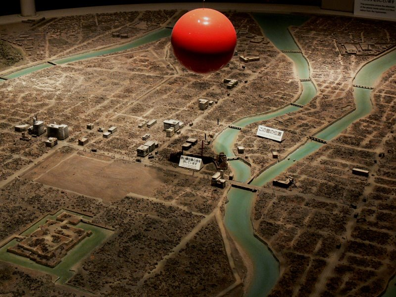 The scaled model of Hiroshima City and the epicenter of explosion of the Atomic Bomb